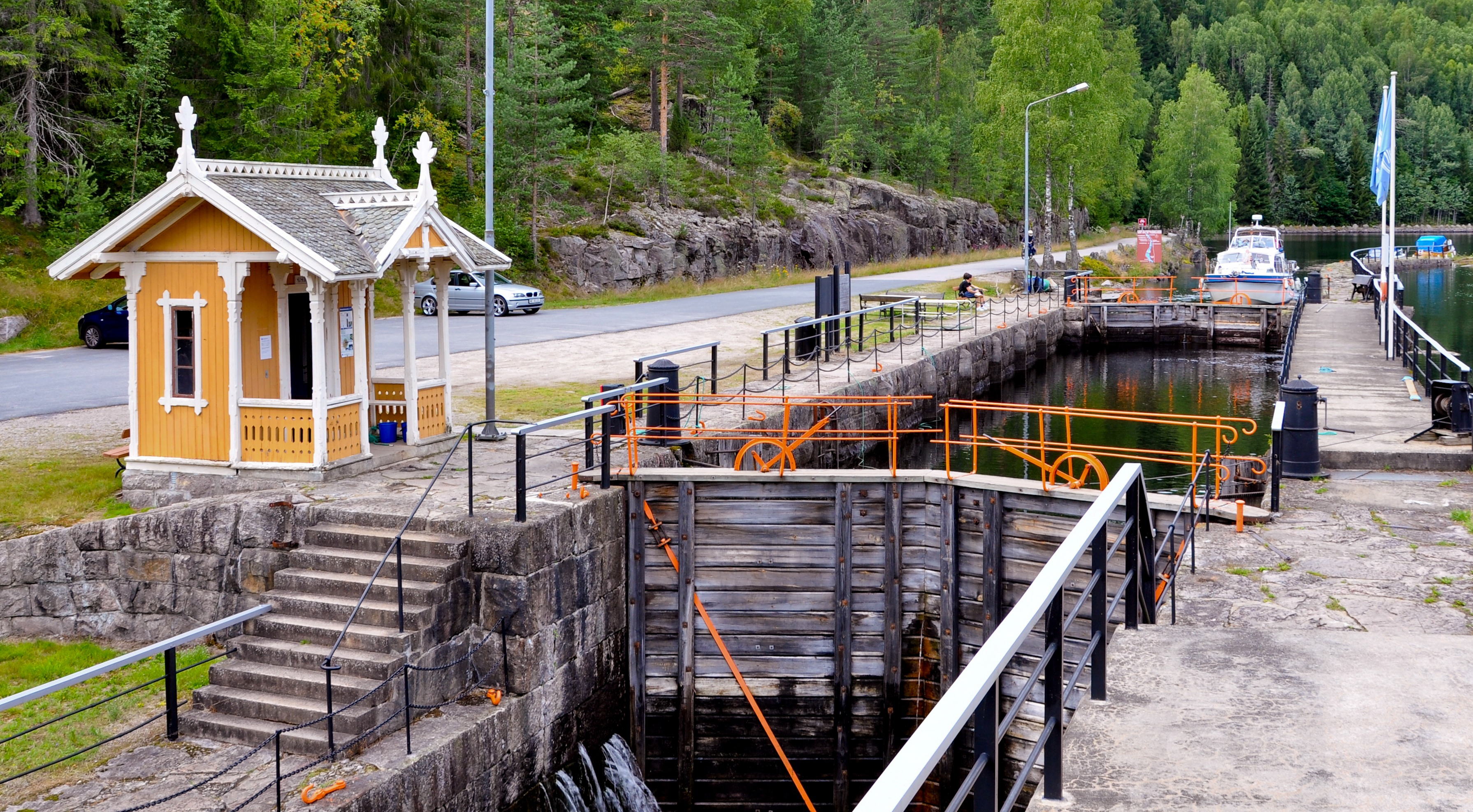 Hogga locks, Nome, Telemark, Norway (Telemark Canal)